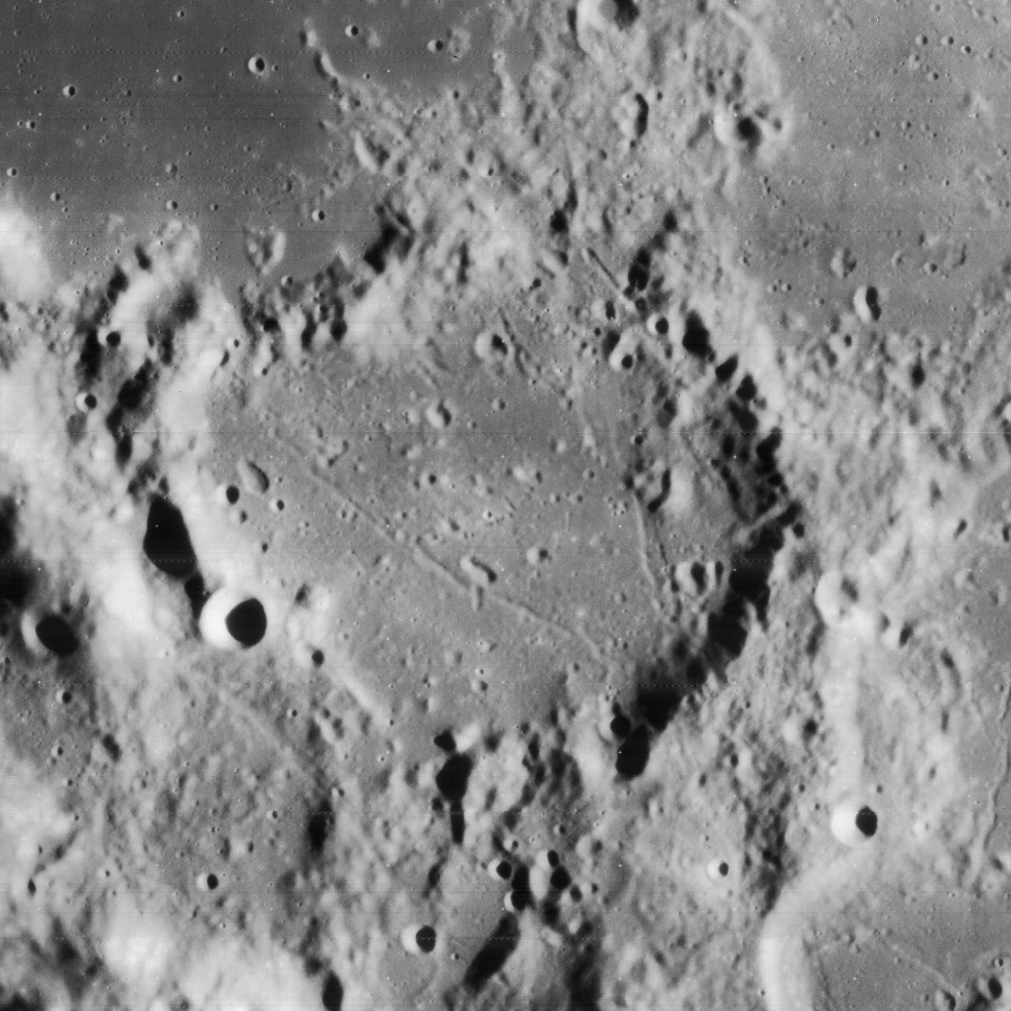 Agatharchides crater, on the moon.